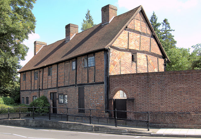 St Martin's Cottages, Eastcote Road, Ruislip